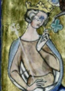 A depiction of the king Edward II, ruler of the Kingdom of England.